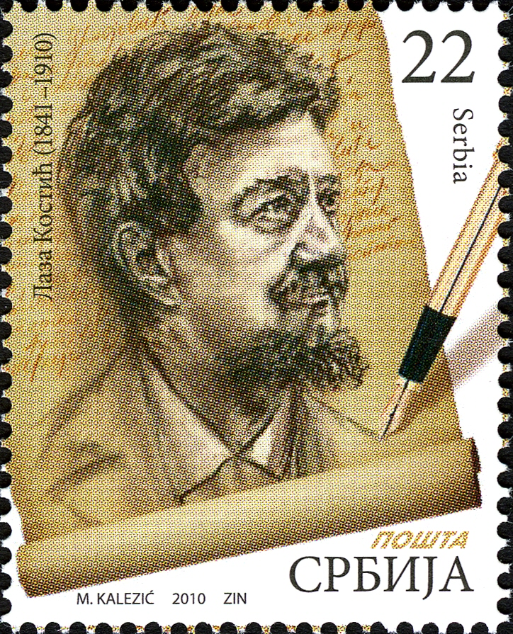 A stamp with Laya Kostic's face, a part of a series "Great Men of Serbian Literature", published in 2010, by Srbijamarka, PTT Srbija